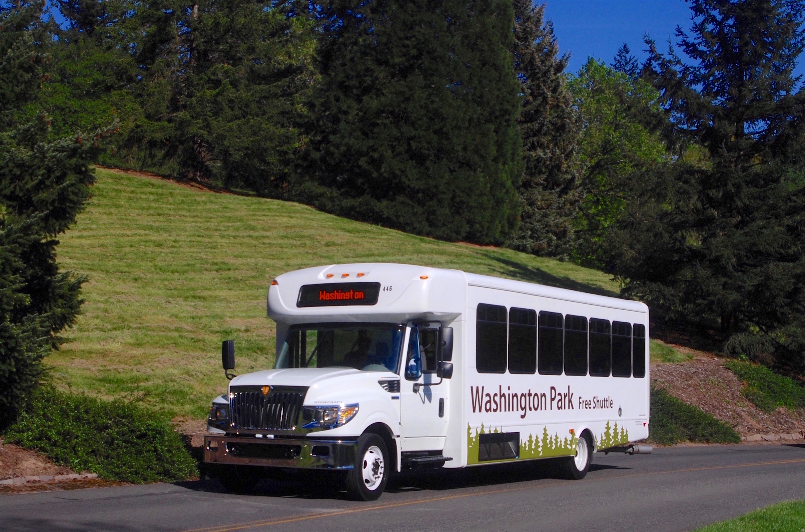 The free Washington Park Shuttle serves Portland, Oregon's Washington Park from April to October. In this photo, one of the minibuses is climbing Knights Boulevard on its way up to Fairview Blvd.